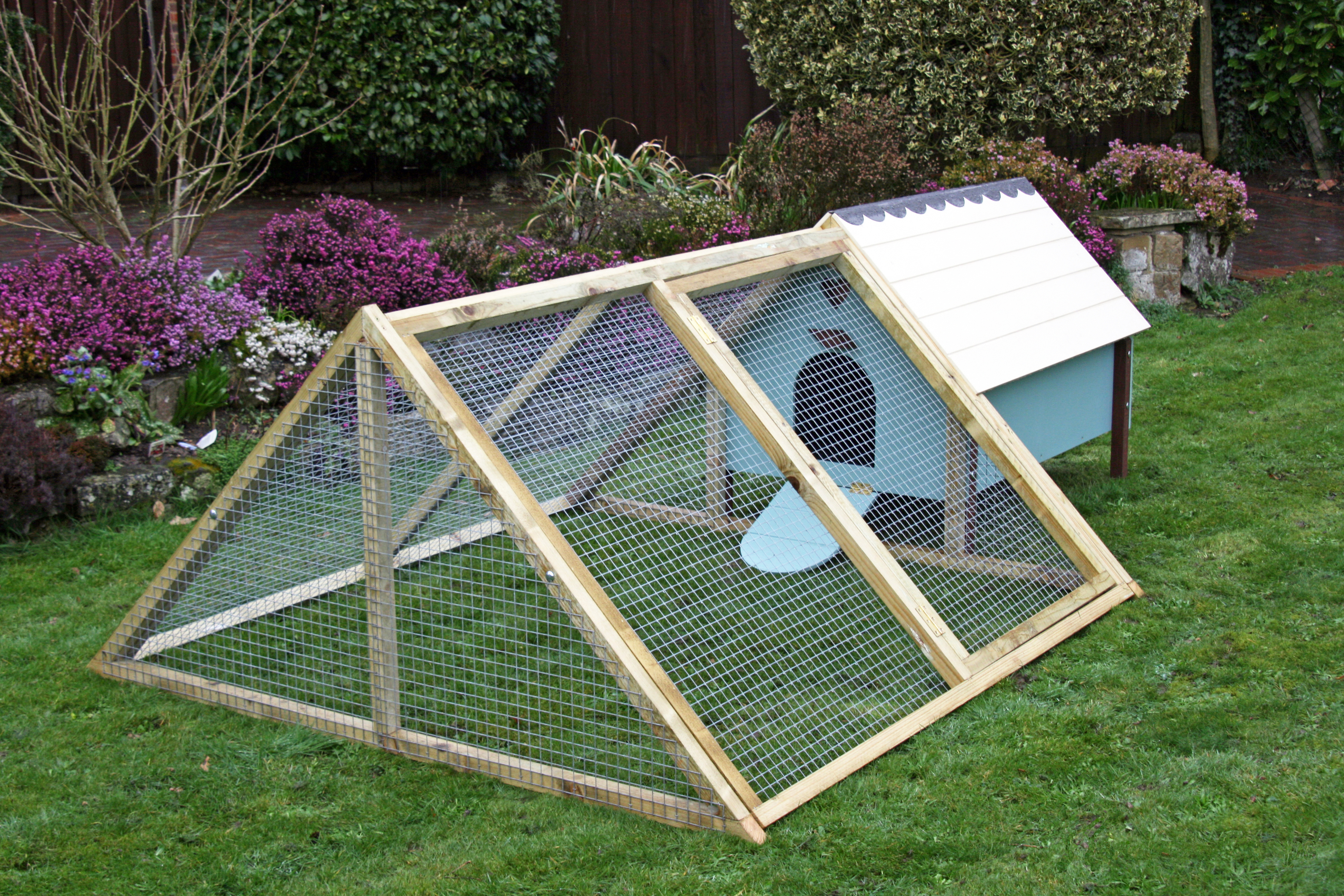 Chicken coop and run by Oakdene Coops